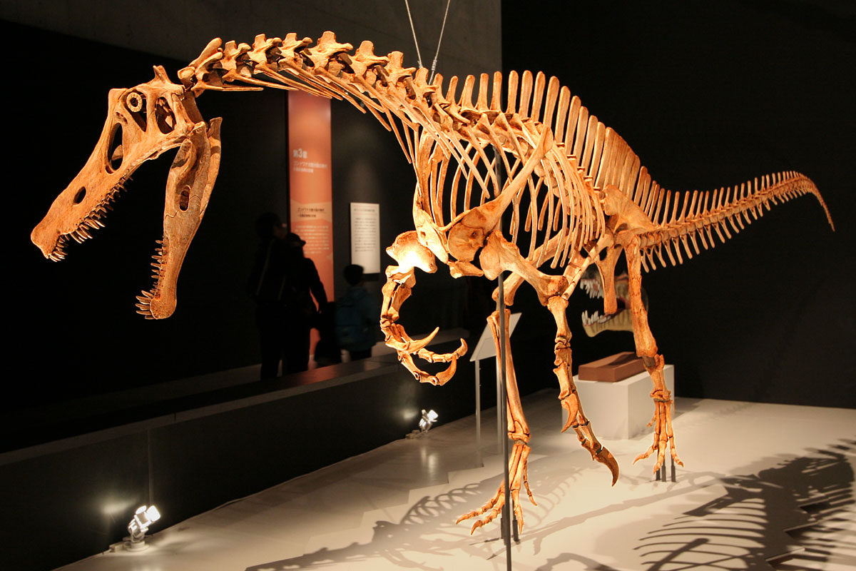 Reconstructed mount of Irritator challengeri (jr synonym = Angaturama)